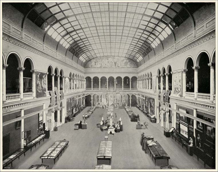 Interior of Woman's Building. Large photographic print from The White City (As It Was), photographs by William Henry Jackson. World's Columbian Exposition 1893. Digitial Identifier: GN90799d_JWH_028w World's Columbian Exposition Collection at The Field Museum